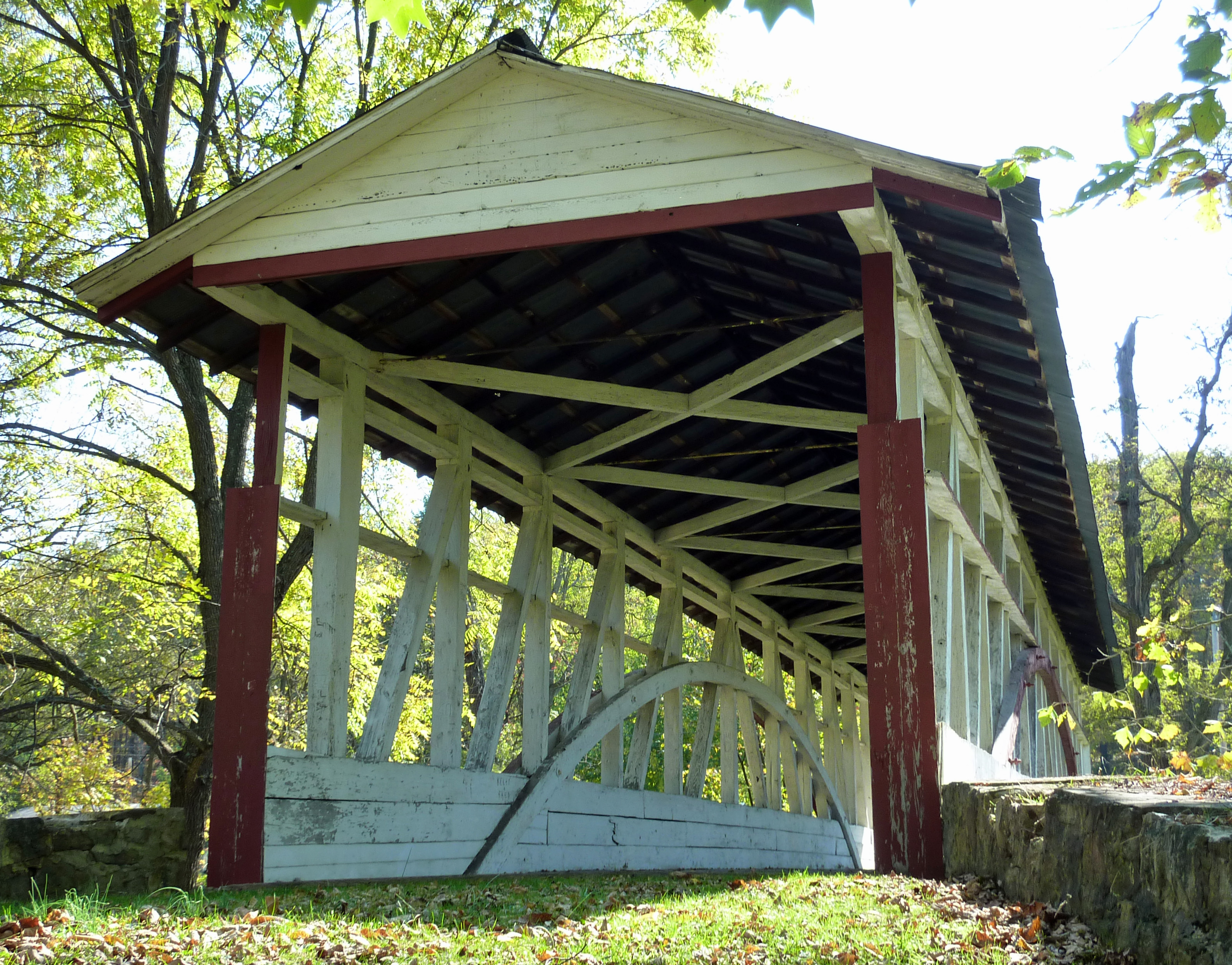 Dr. Knisley Covered Bridge built in 1867 over Dunning Creek in at West St. Clair Township, Bedford County, Pennsylvania, USA. Original text from FLickr: During a family visit back to western PA in October 2010 we hopped in my sister's car and checked out some quaint covered bridges - I think all of them are in Bedford County (but let me know if I'm wrong). The bridges are still in good shape but several are no longer in use. It was a fun day checking these out since I had never seen any of them before. Identification from p. 27 of "Pennsylvania's Covered Bridges" 2nd ed. by Benjamin D. Evans and June R. Evans